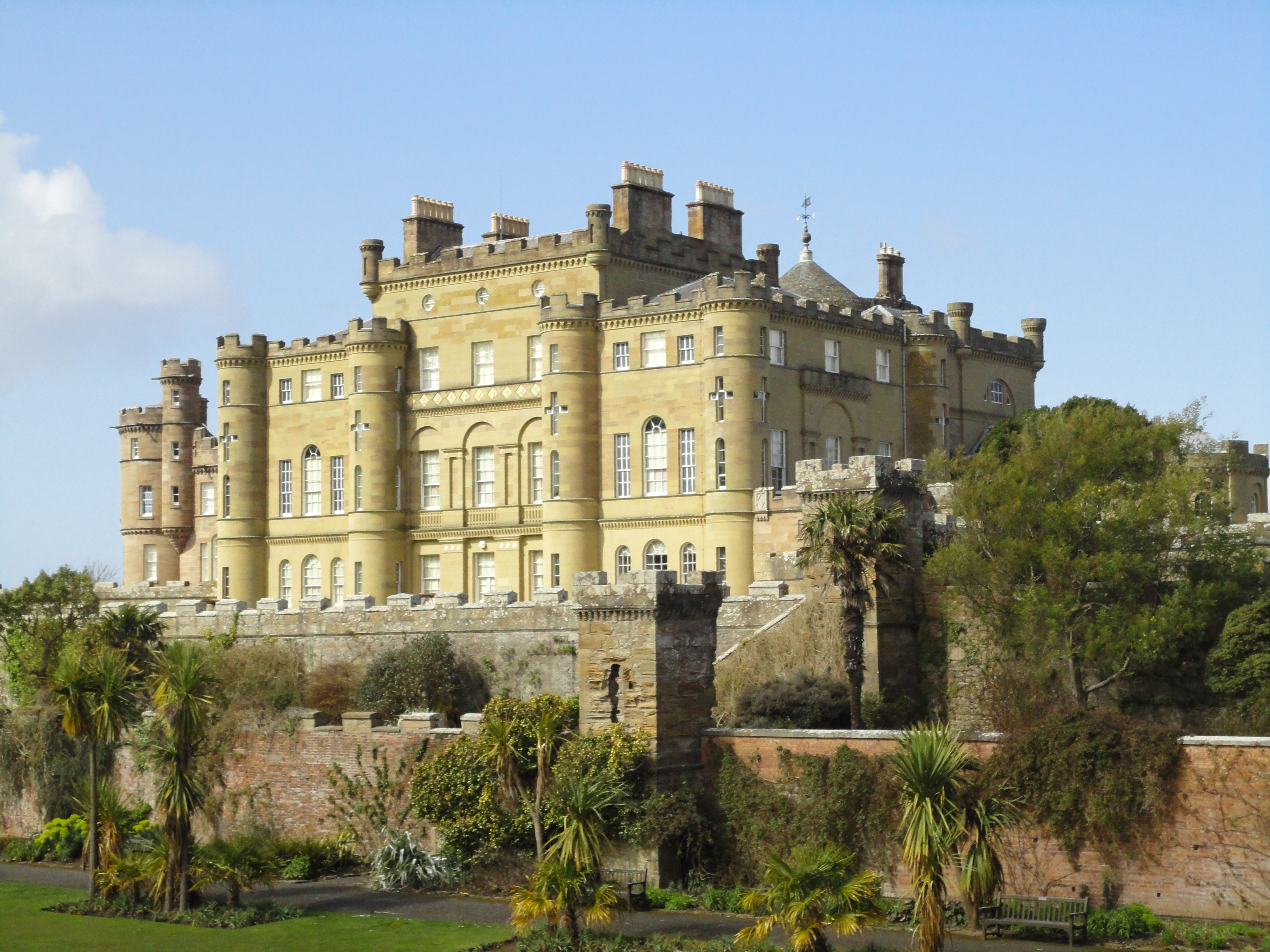 Culzean Castle house and gardens.